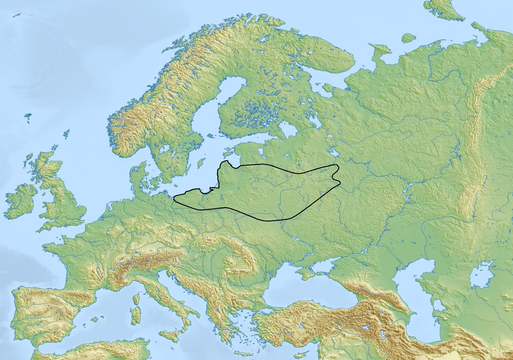 Map of Baltic river names, based on a map printed on page 48 in Encyclopedia of Indo-European Culture, which was edited by J. P. Mallory and Douglas Q. Adams, and published by Taylor & Francis in 1997.